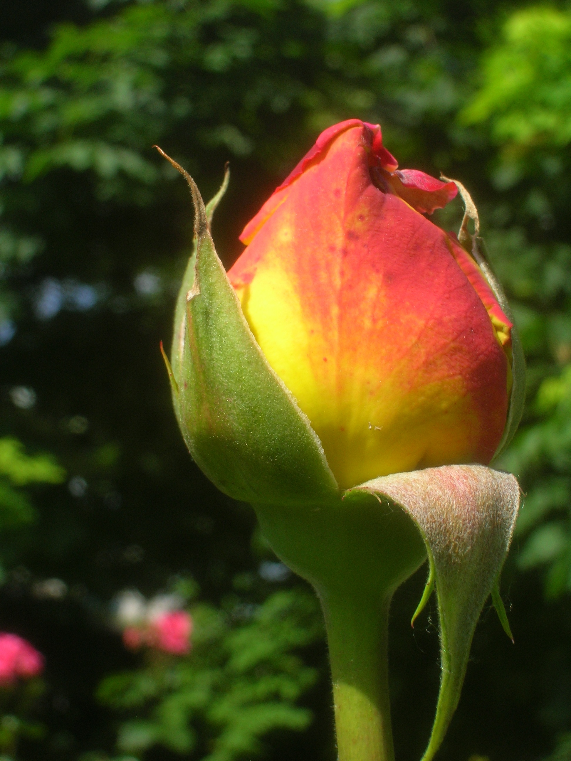 Rose bud of a 'Gloria Dei' in the Volksgarten in Vienna. Identified by sign.